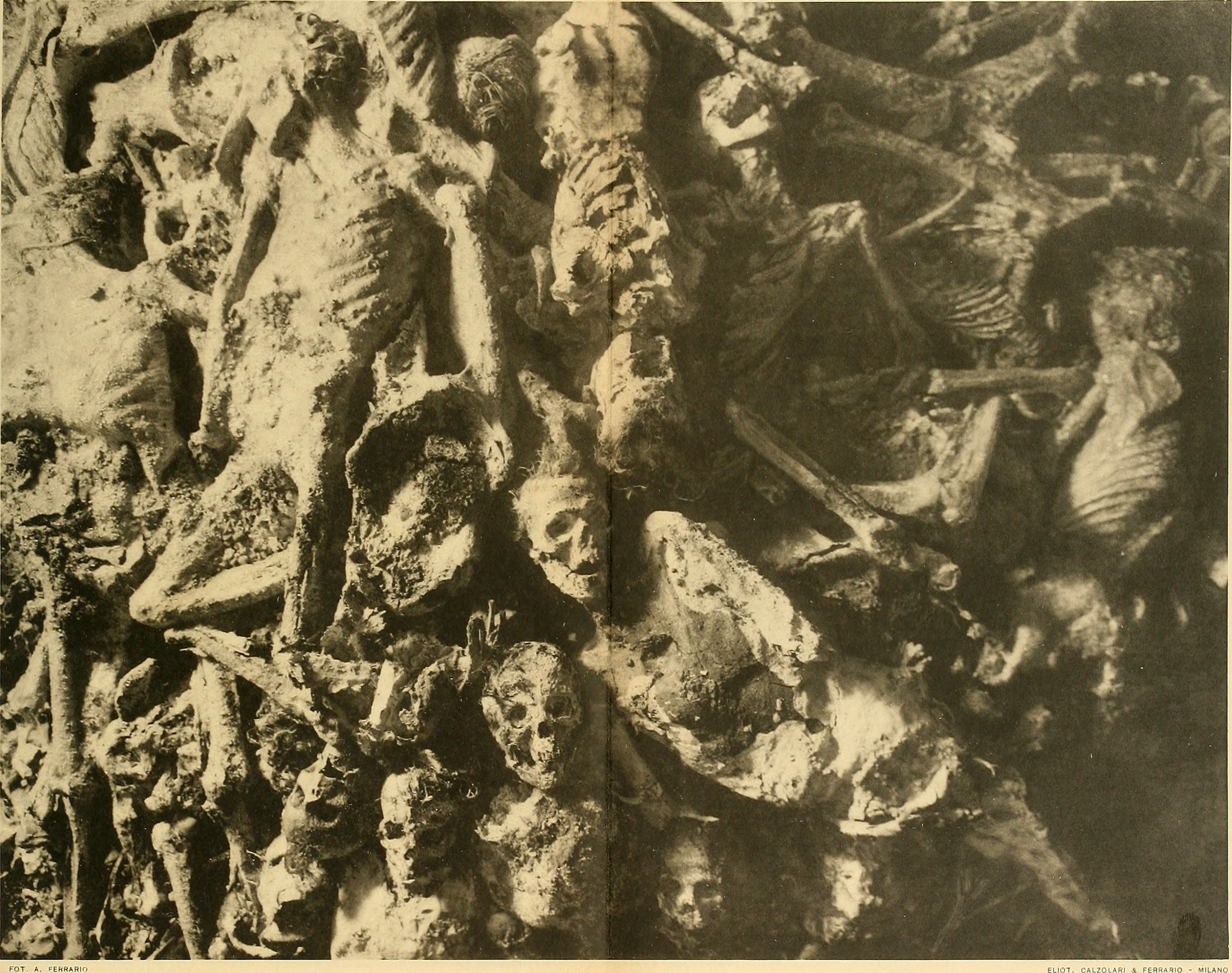 Title: Atti della Societitaliana di scienze naturali e del Museo civico di storia naturale di Milano Year: 1907 (1900s) Authors: Societitaliana di scienze naturali; Museo civico di storia naturale di Milano Subjects: Natural history Publisher: Milano : La Societ Text Appearing Before Image: ' Text Appearing After Image: STRATO SUPERFICIALE DEI CADAVERI DI UN SEPOLCRO DELLA " ROTONDA